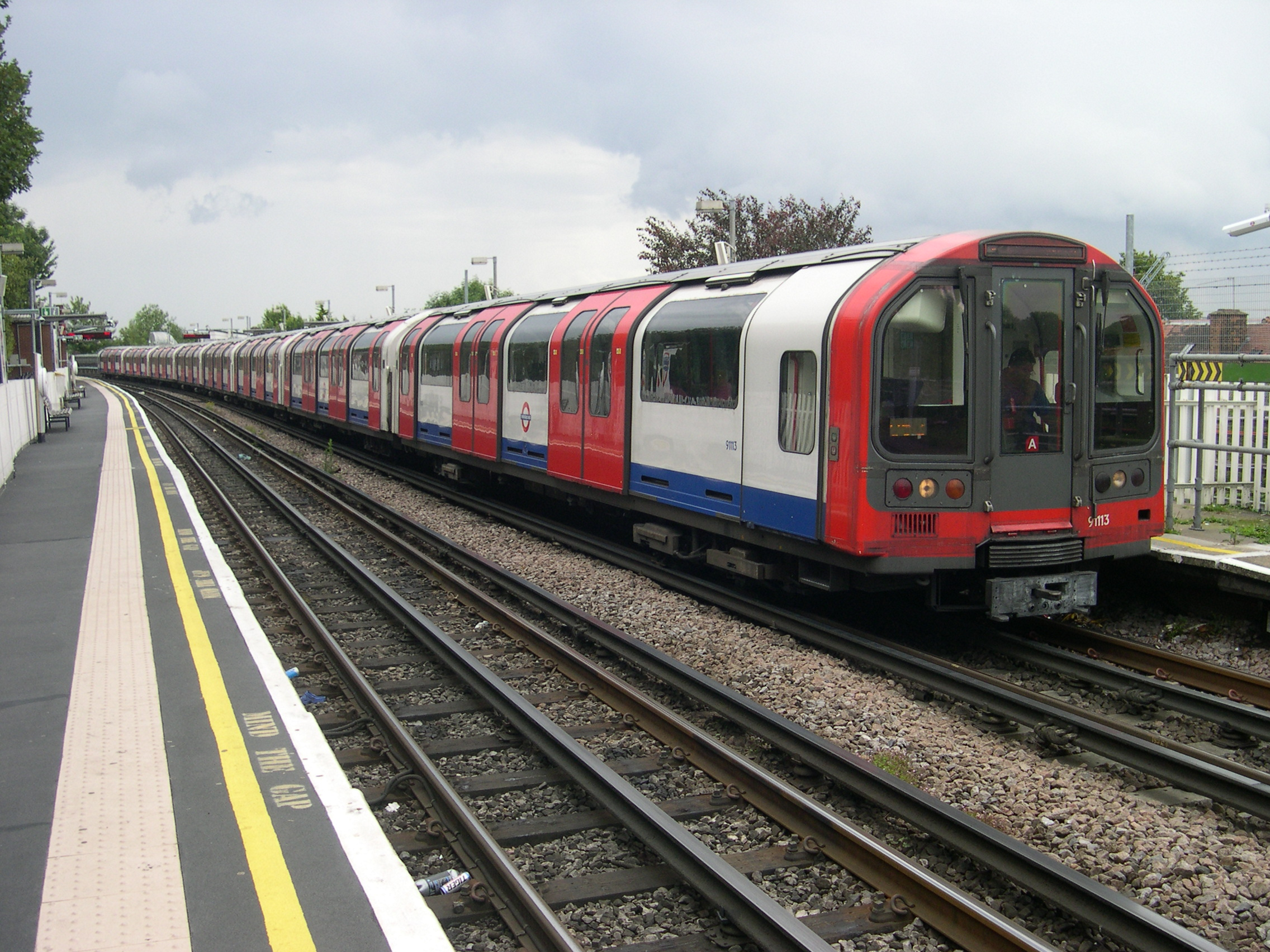 A 1992 Stock Train at East Acton Station